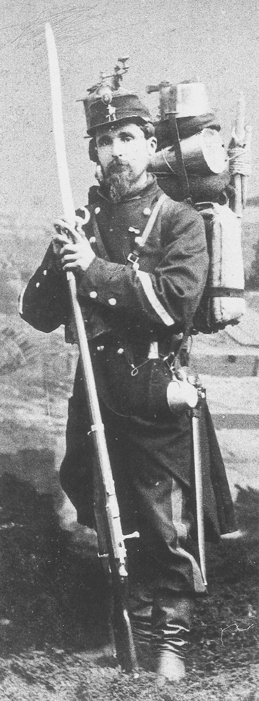 Sergeant from Garde Nationale Mobilisee